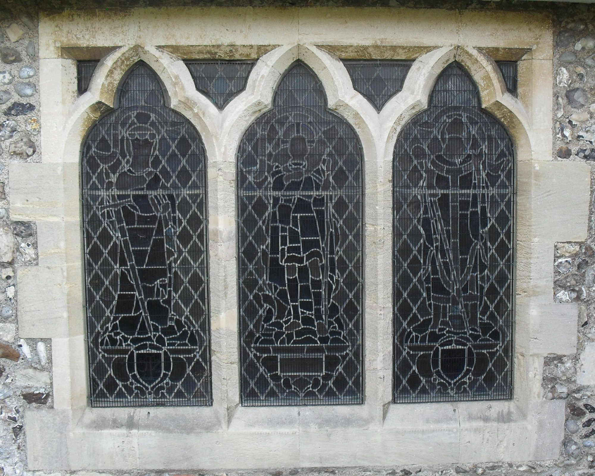 Exterior view of a stained glass window designed by the Hove-based firm Cox & Barnard, in the north aisle at St Leonard's Church, Seaford, East Sussex, England. It depicts Saint Katherine, the Good Shepherd and St Richard, and was installed in 1954.